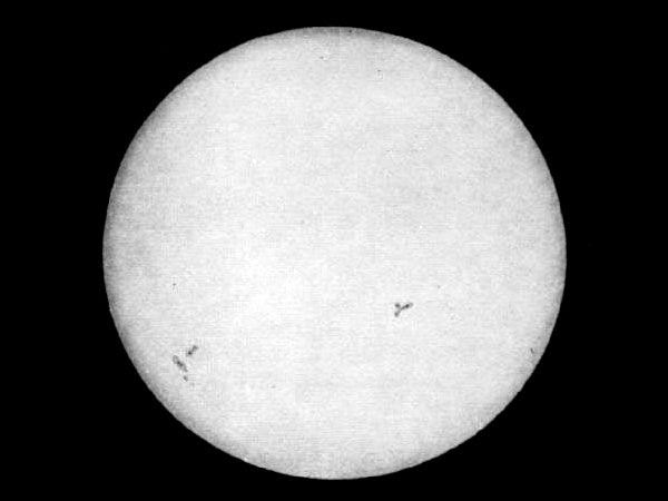 The first photograph of the Sun was made by Léon Foucault and Hippolyte Fizeau on 2 April 1845 in Paris, France.